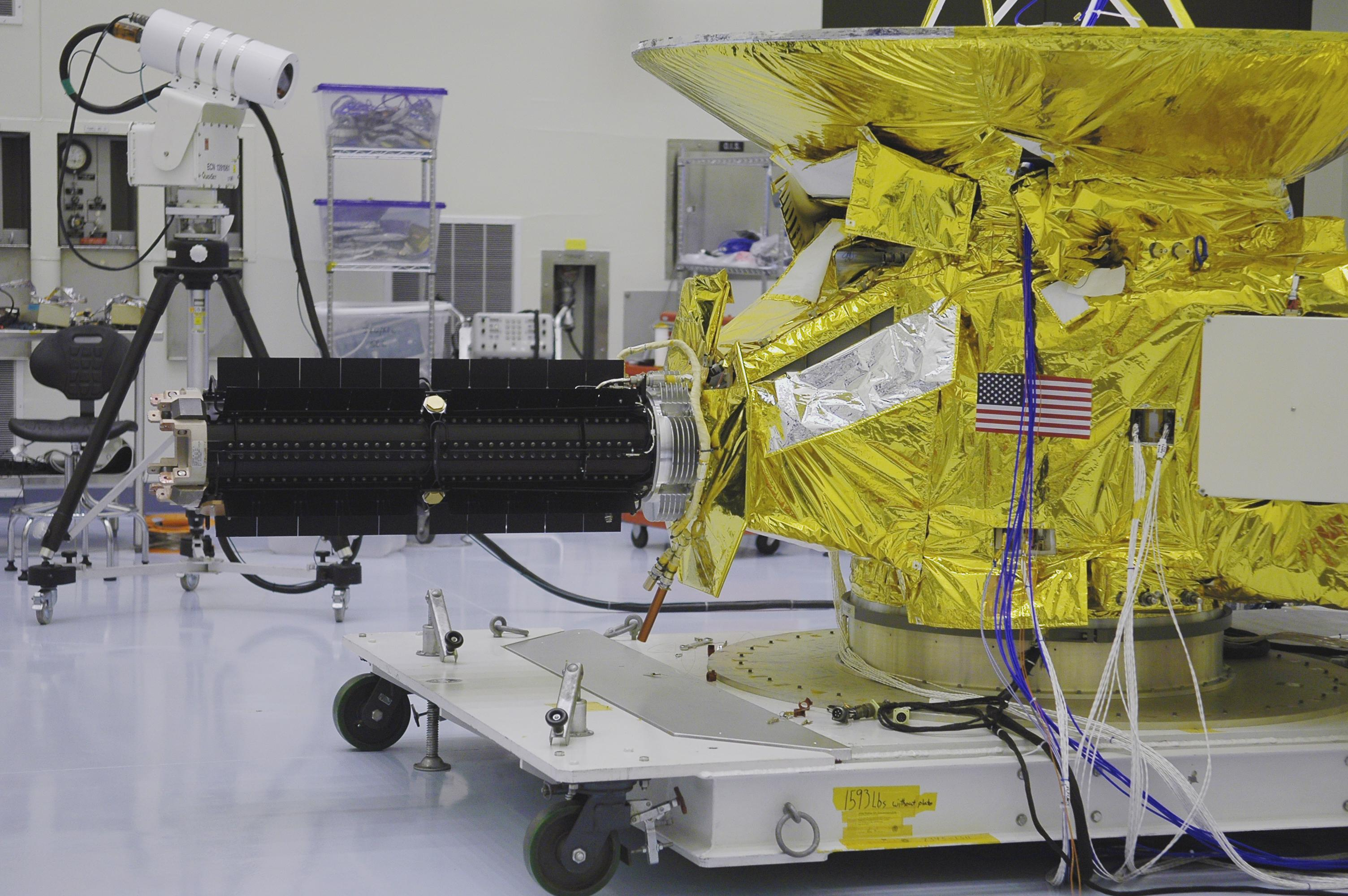 KENNEDY SPACE CENTER, FLA. – In NASA Kennedy Space Center’s Payload Hazardous Servicing Facility, In NASA Kennedy Space Center’s Payload Hazardous Servicing Facility, the radioisotope thermoelectric generator (RTG) has been installed onto the New Horizons spacecraft for a fit check. The RTG is the baseline power supply for New Horizons, scheduled to launch in January 2006 on a journey to Pluto and its moon, Charon. It is expected to reach Pluto in July 2015.